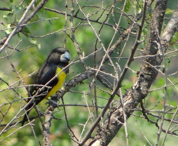 Grosbeaks are immensely thick-billed finches.